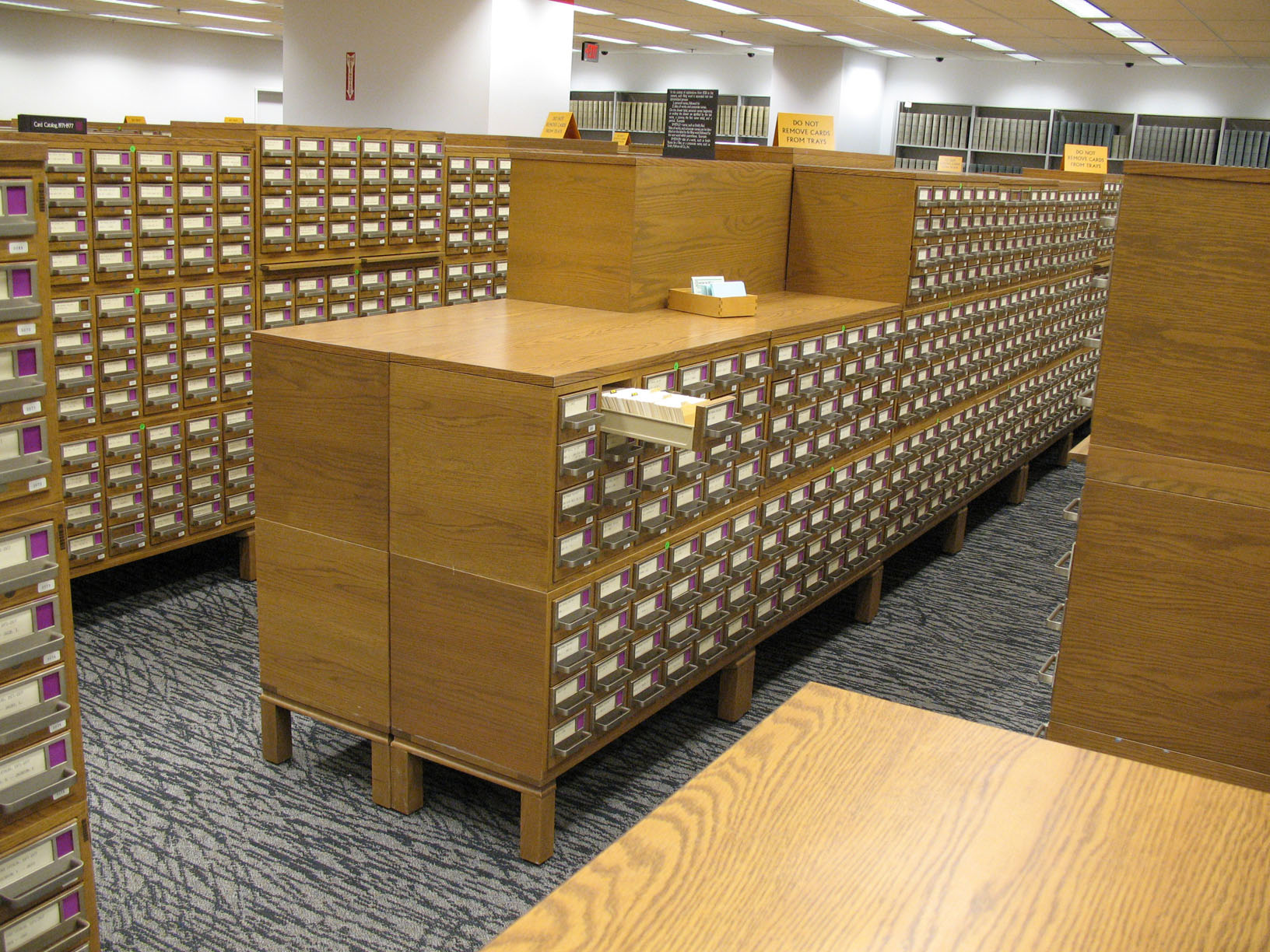 Copyright catalogs at the Library of Congress. Located in room LM-404 of the James Madison Memorial Building, Washington DC. The pre-1978 indexes to the copyright records were manually entered on 3 by 5 inch (76 by 127 mm) cards that were stored in file drawers.